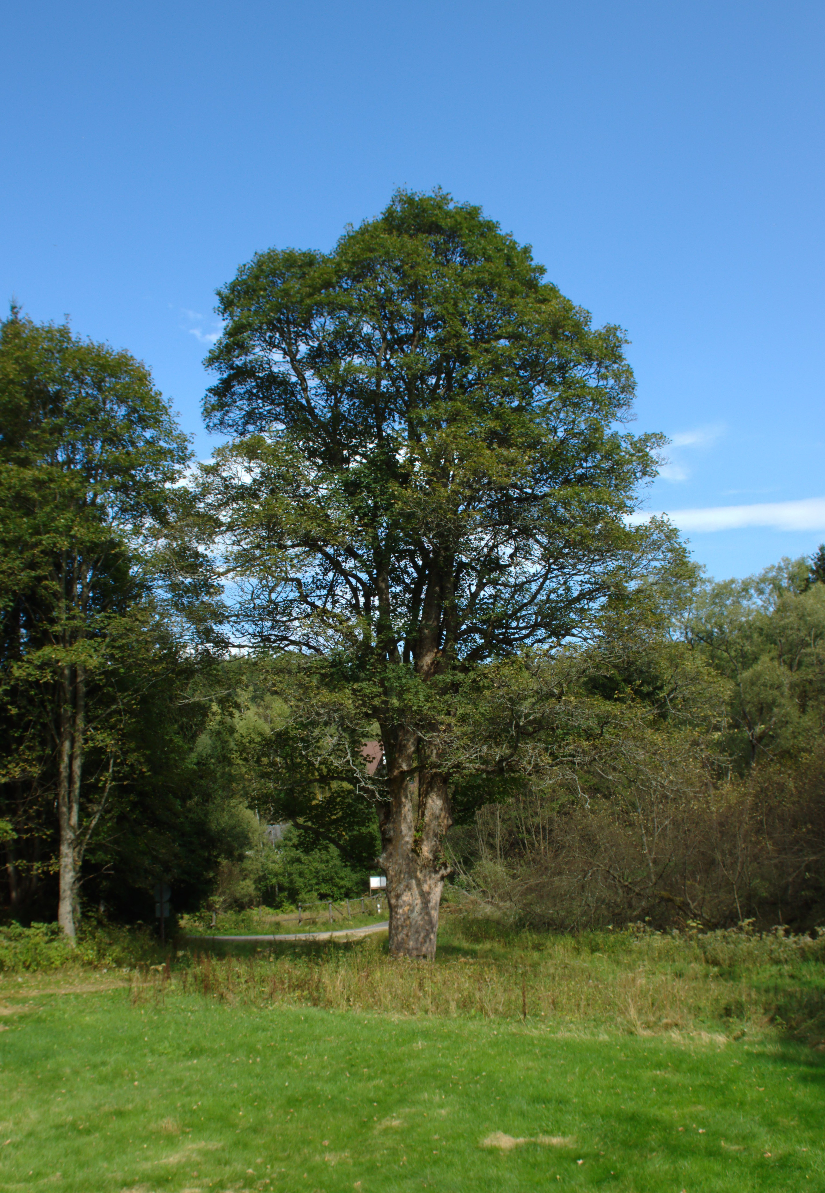 A famous tree in Nicov-Popelná, Losenice River valley